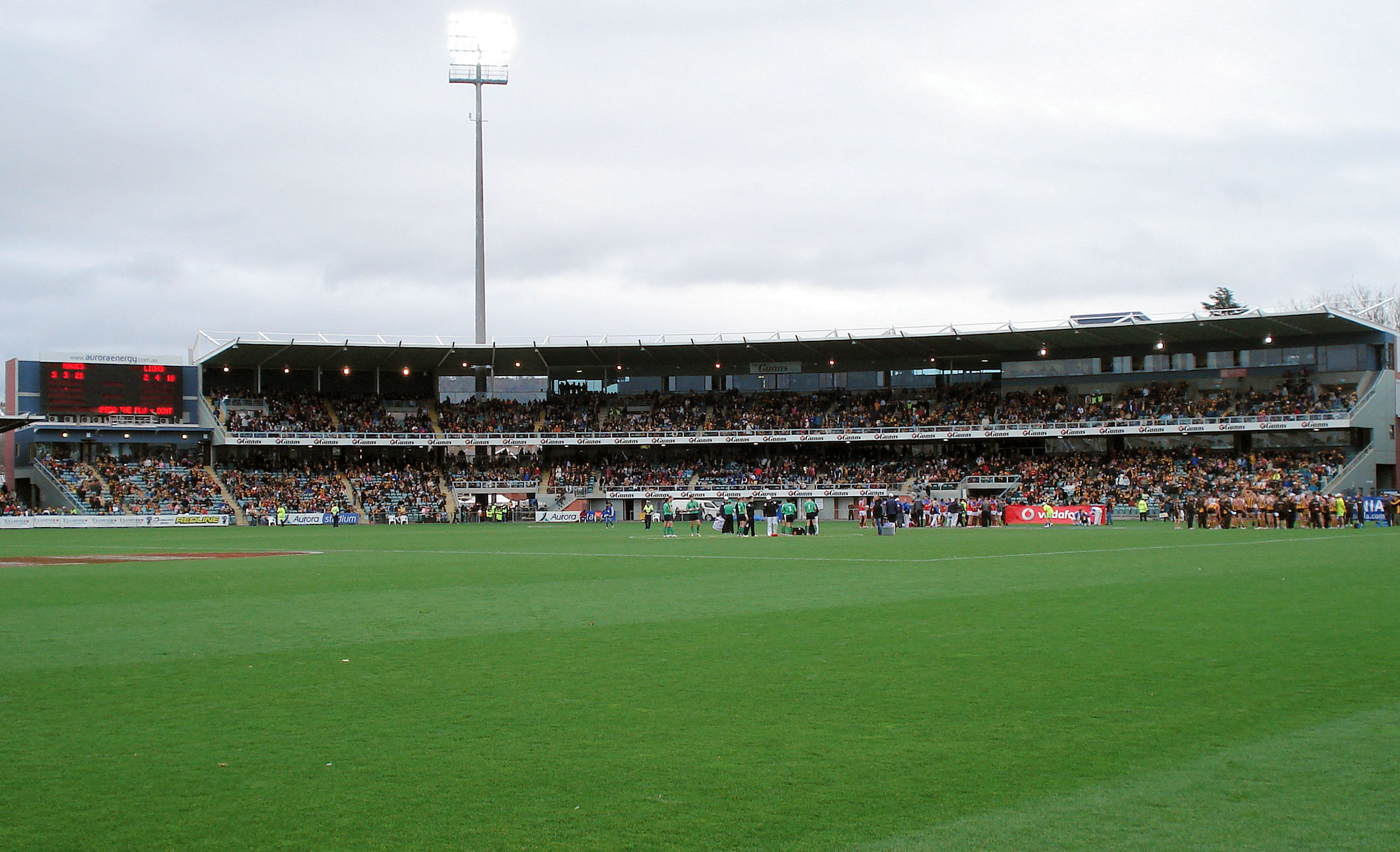 Gunns Stand at Aurora Stadium